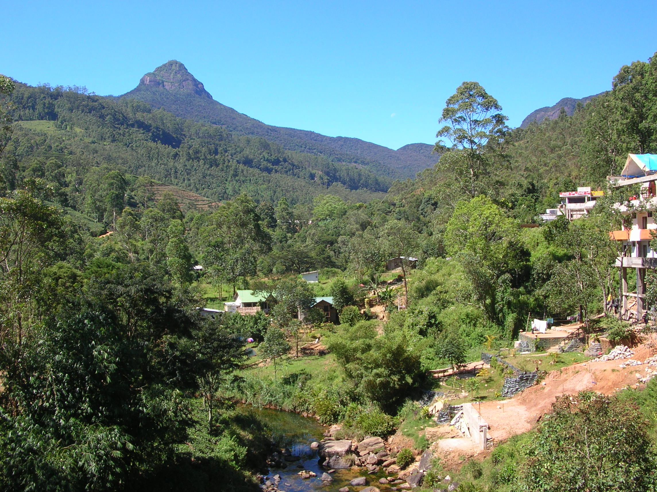 Sri Pada mountain (Adam's Peak) on the left, view from village of Maskeliya, Sri Lanka